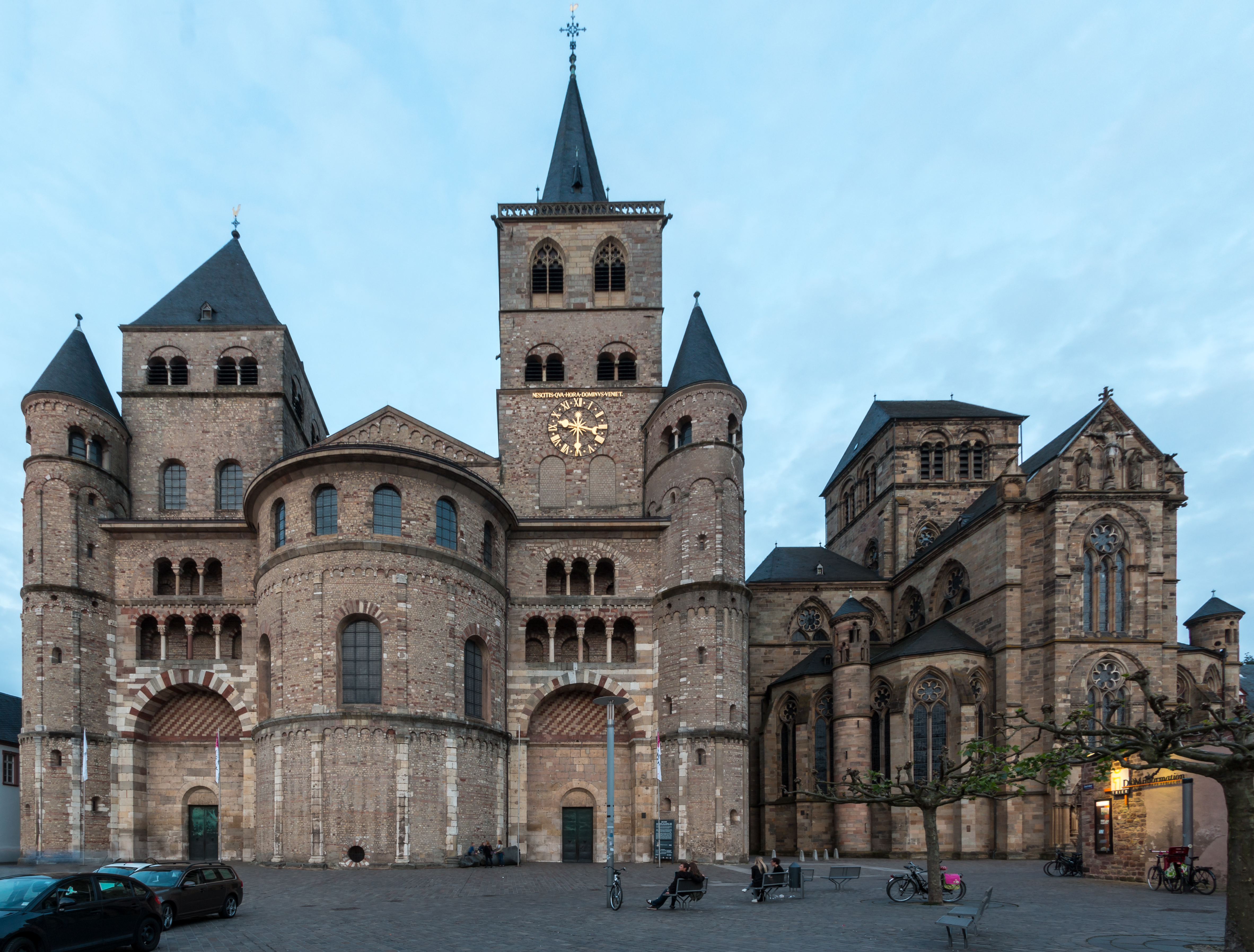 Cathedral of St. Peter, Trier, Rhineland-Palatinate, Germany This is a photograph of an architectural monument.It is on the list of cultural monuments of Trier